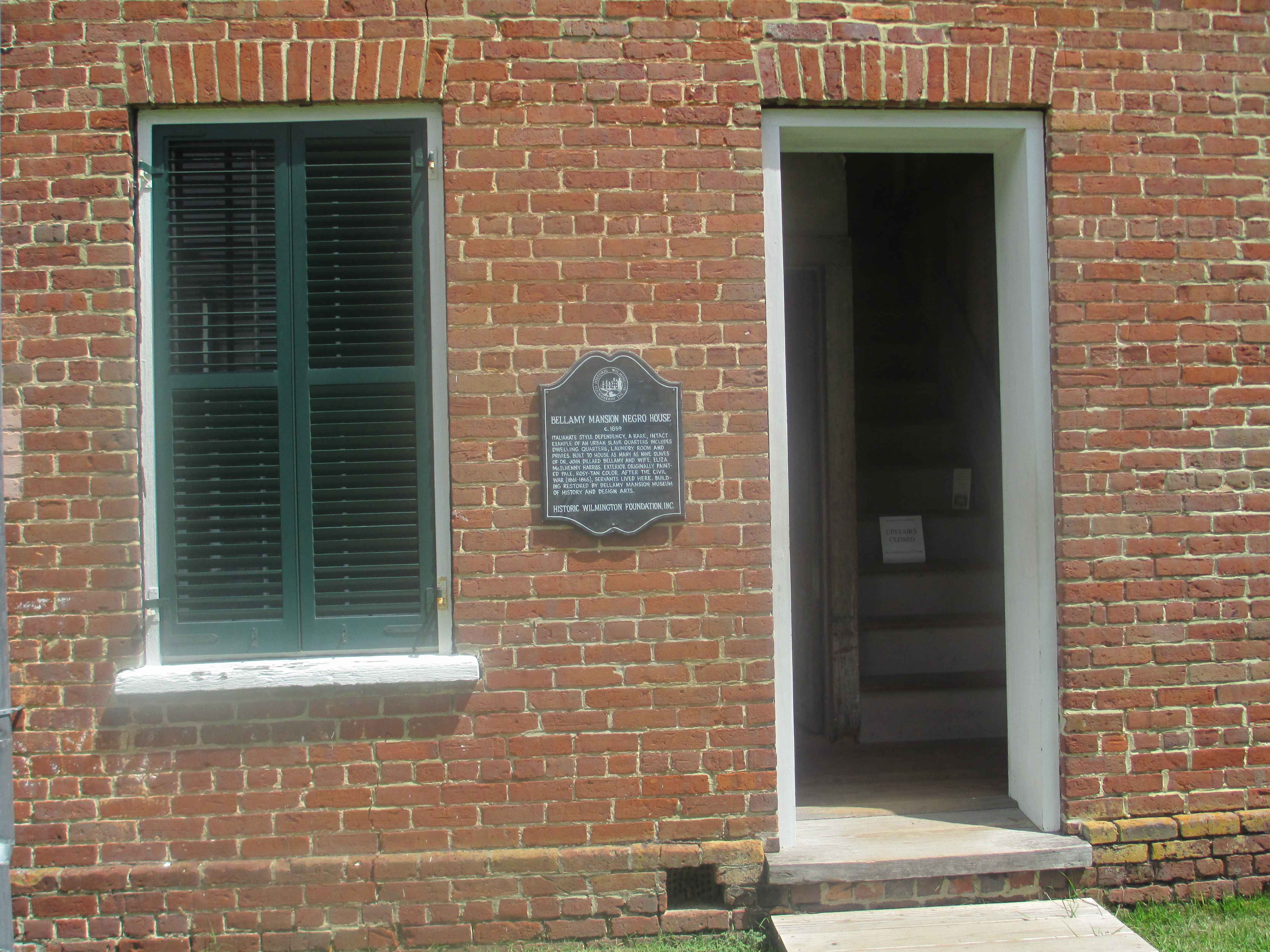 I took photo with Canon camera at Bellamy Mansion in Wilmington, NC.